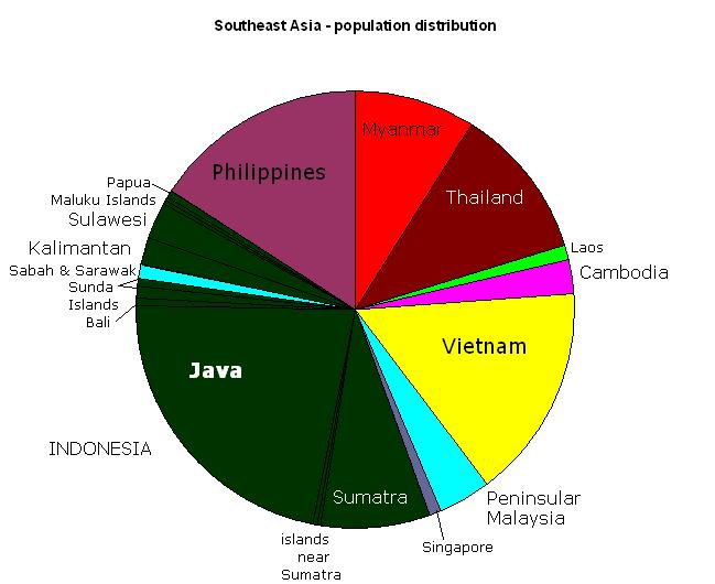 Pie chart of population distribution throughout Southeast Asia.